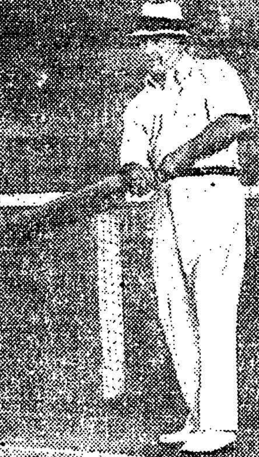 Photograph of Herbert Fry coaching cricket.